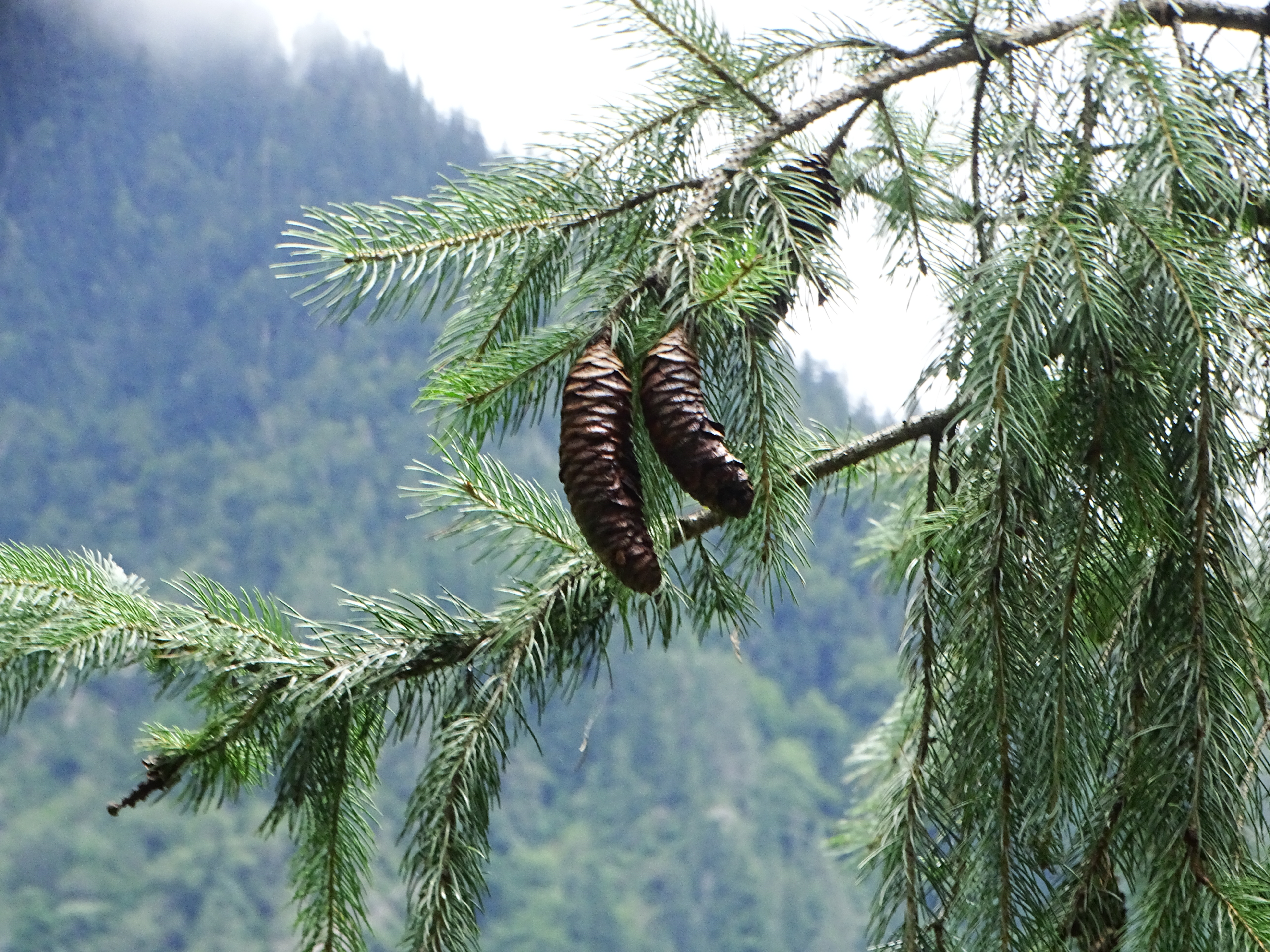 Picea smithiana seen in Pulna Uttarakhand on the way to Ghangharia.